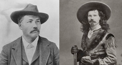 Frank Grouard, left; Captain Jack Crawford, right, composite.